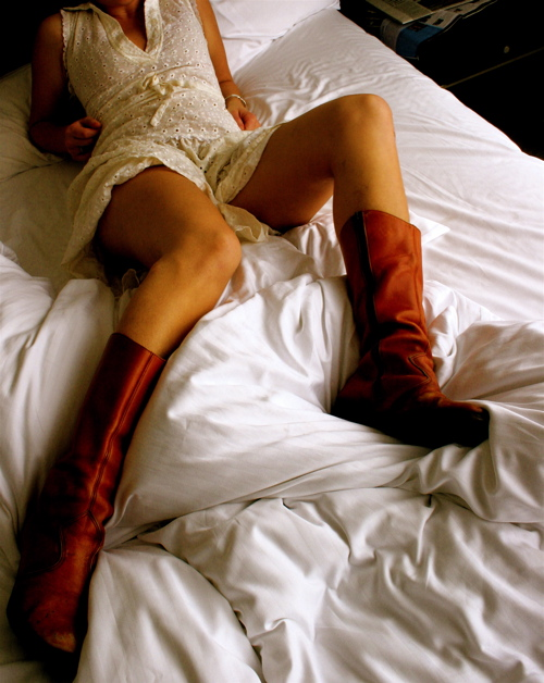 Boots in Bed, Tokyo